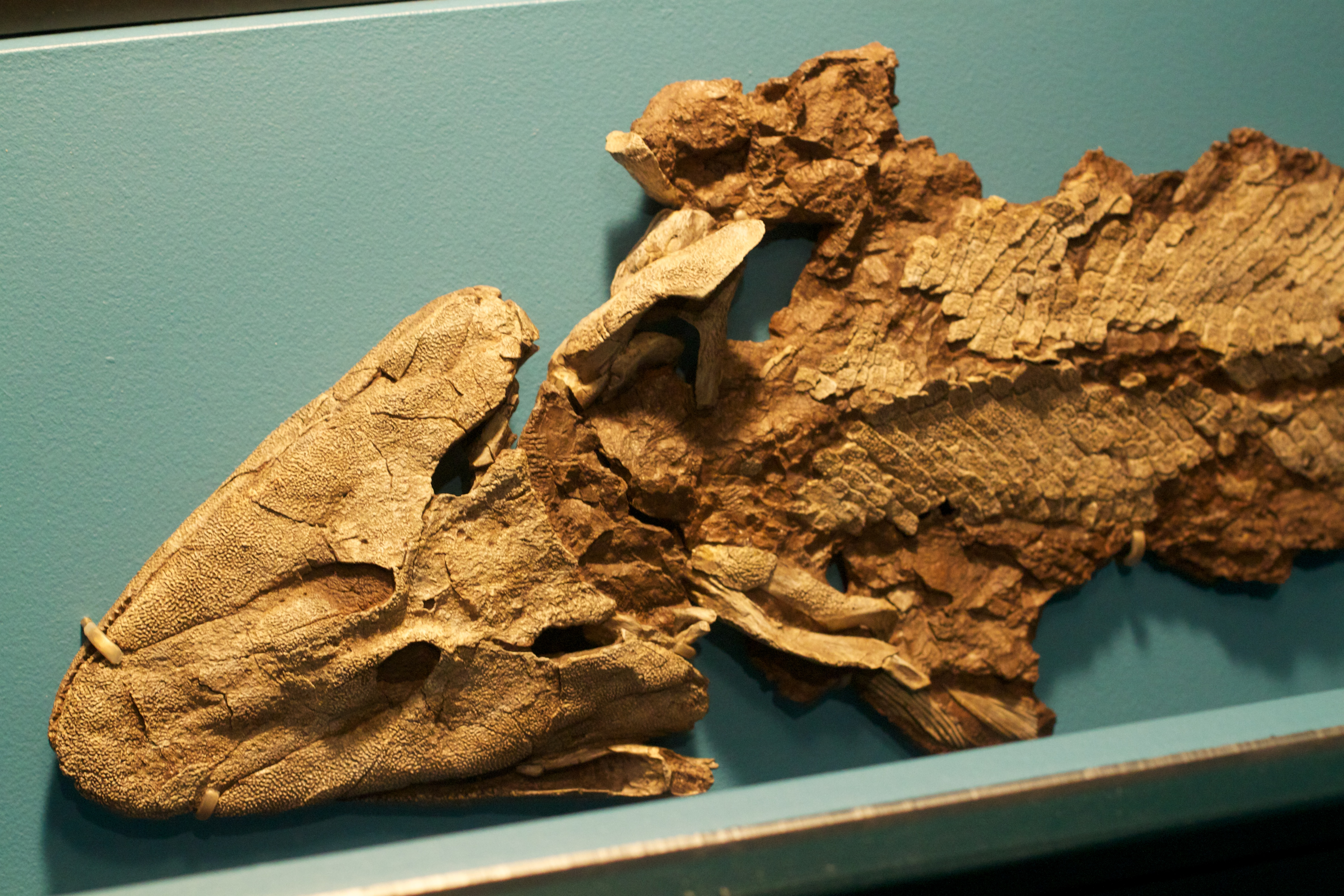 A fossil of the fish Tiktaalik at the Field Museum, Chicago